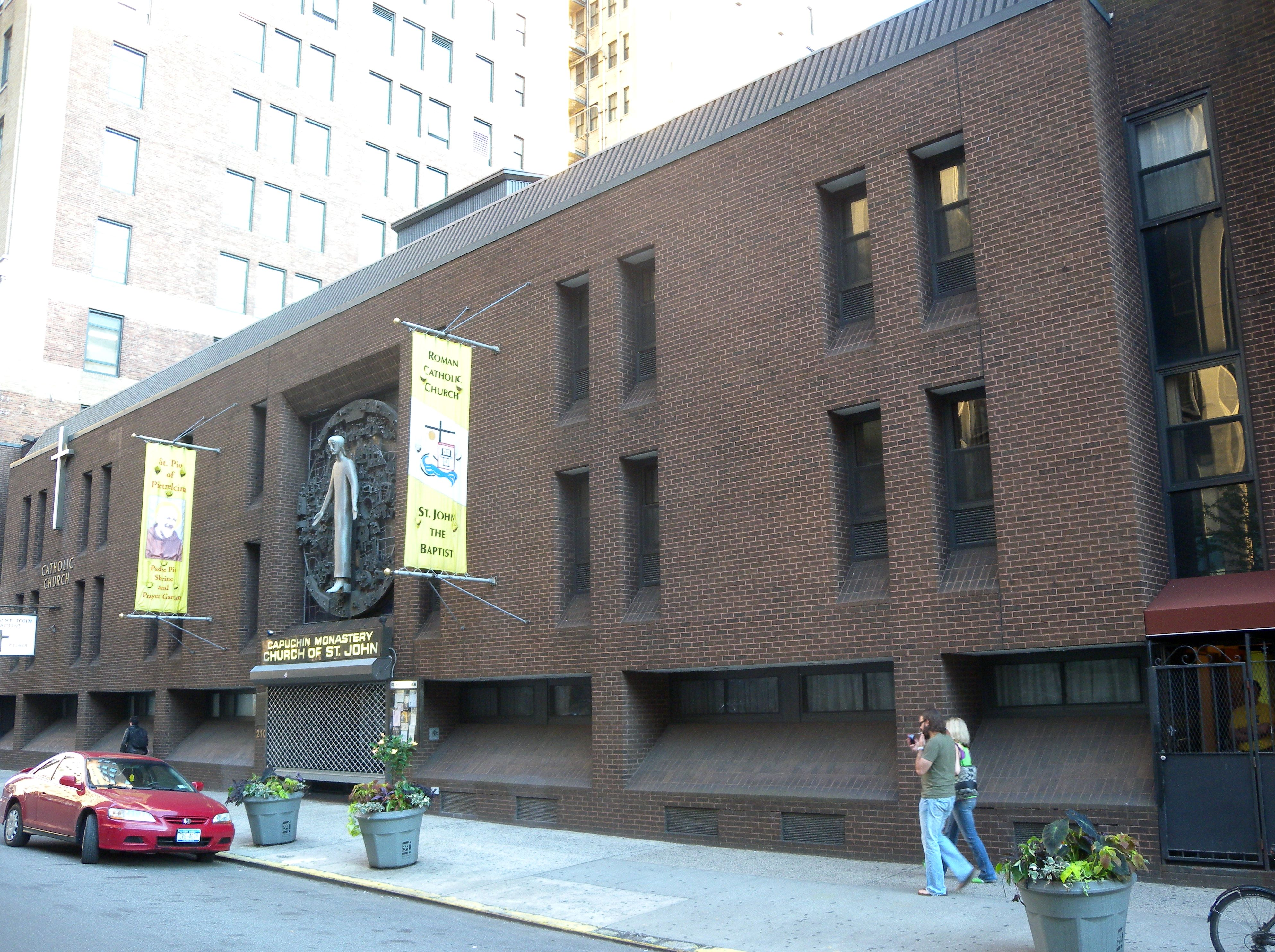 Looking east across 31st Street at Capuchin Monastery.